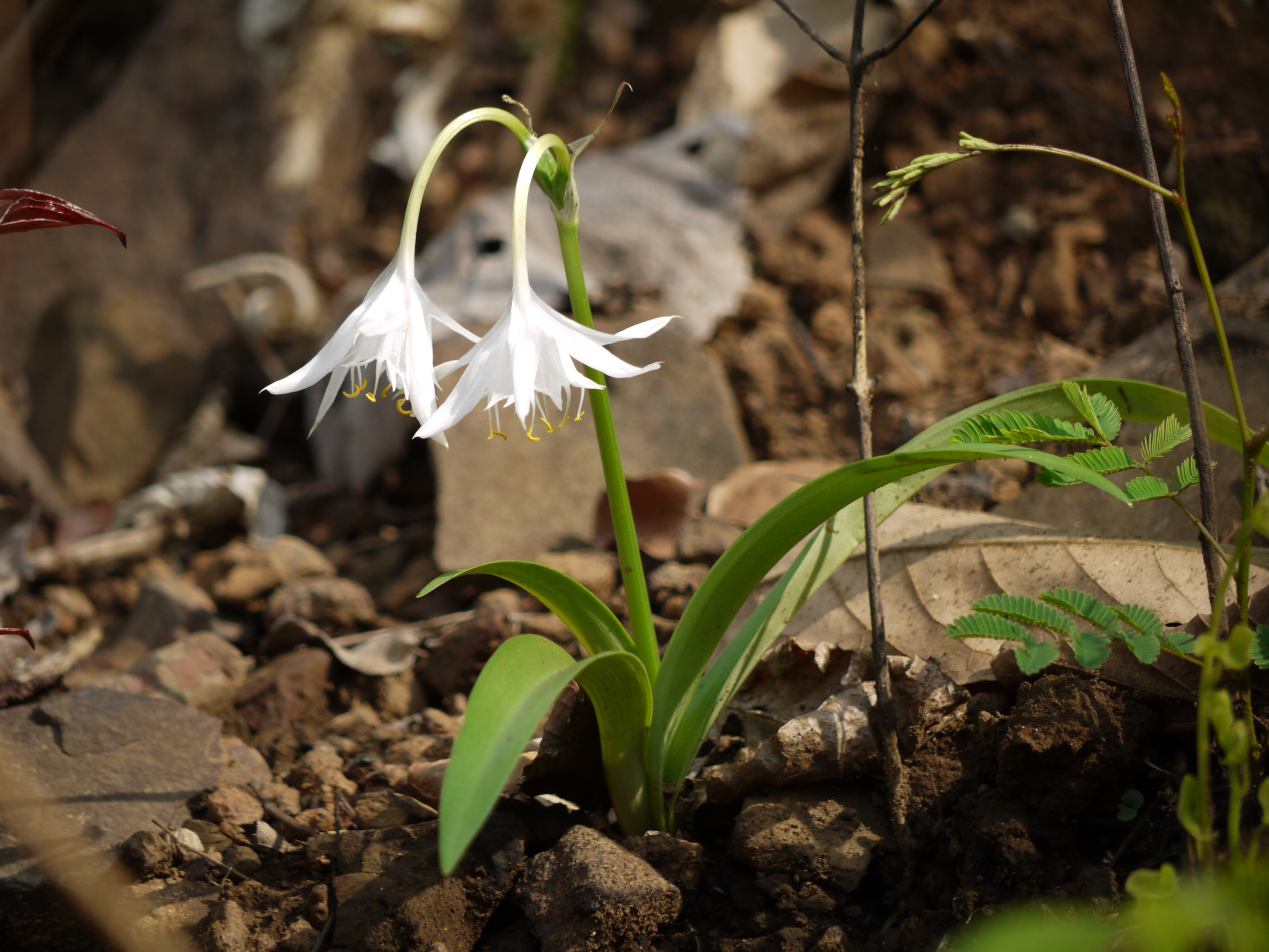 Amaryllidaceae (amaryllis family) » Pancratium triflorum pan-KRAY-tee-um or pan-KRAY-shee-um -- from the Greek pankratos, meaning strength TRY-flor-um -- meaning, three-flowered commonly known as: forest spider lily • Marathi: पानकुसुम pankusum Endemic to: Sahyadri (Western Ghats of India) References: Flowers of India • BizHat • Flowers of Sahyadri by Shrikant Ingalhalikar